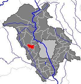 This map shows the area of the Gemeinde (municipality) Sankt Oswald bei Plankenwarth in the Bezirk (district) Graz-Umgebung, Styria, Austria.